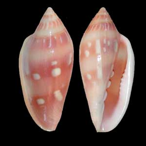 Species: Marginella desjardini Marche-Marchad, 1957 data: trawled from 40-50m offshore Dakar, Senegal L 62,4mm